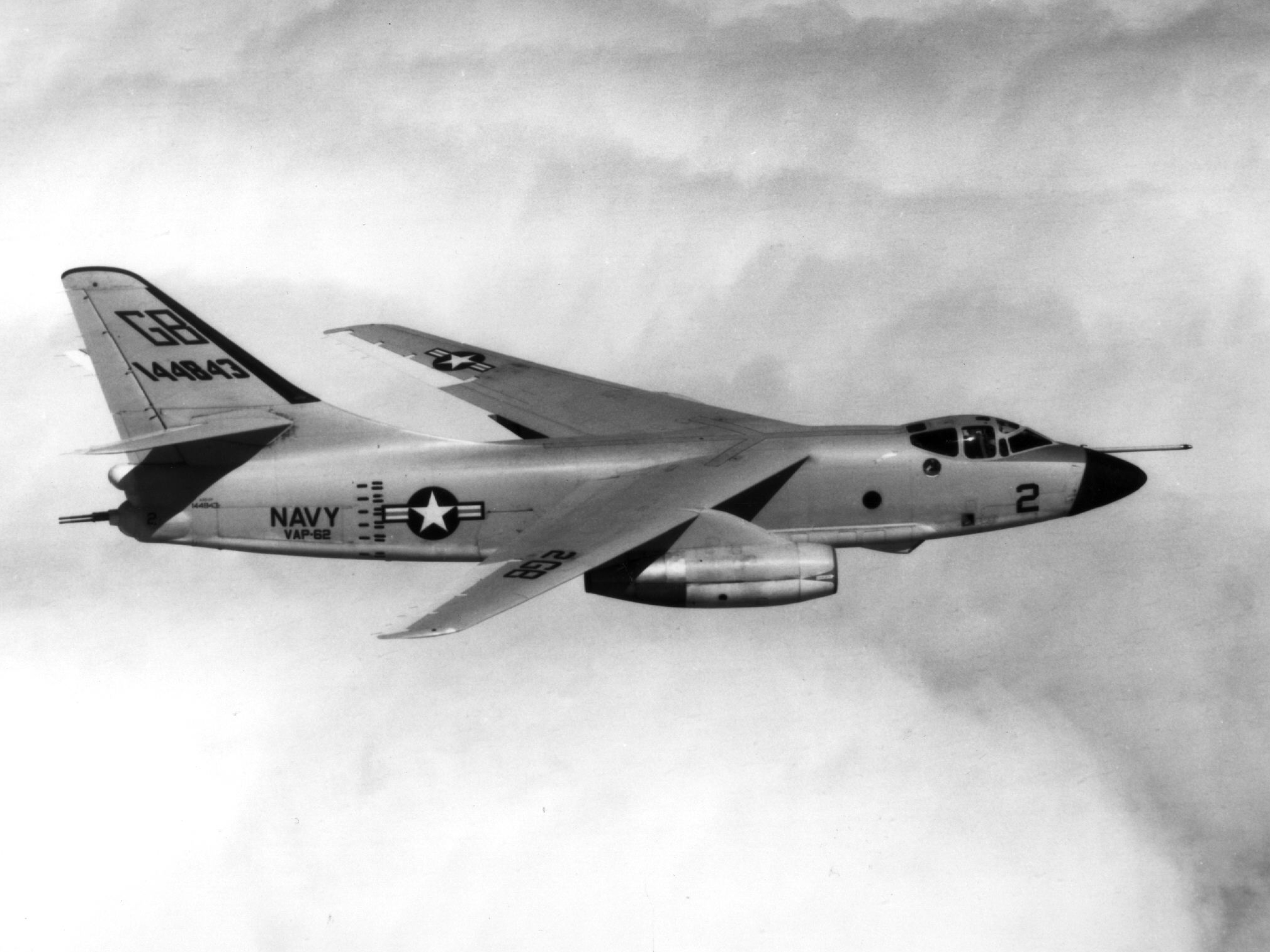 A U.S. Navy Douglas A3D-2P Skywarrior (BuNo 144843) from Heavy Photographic Squadron 62 (VAP-62) in flight in the late 1950s. Note that the aircraft is still equipped with the gun turret.